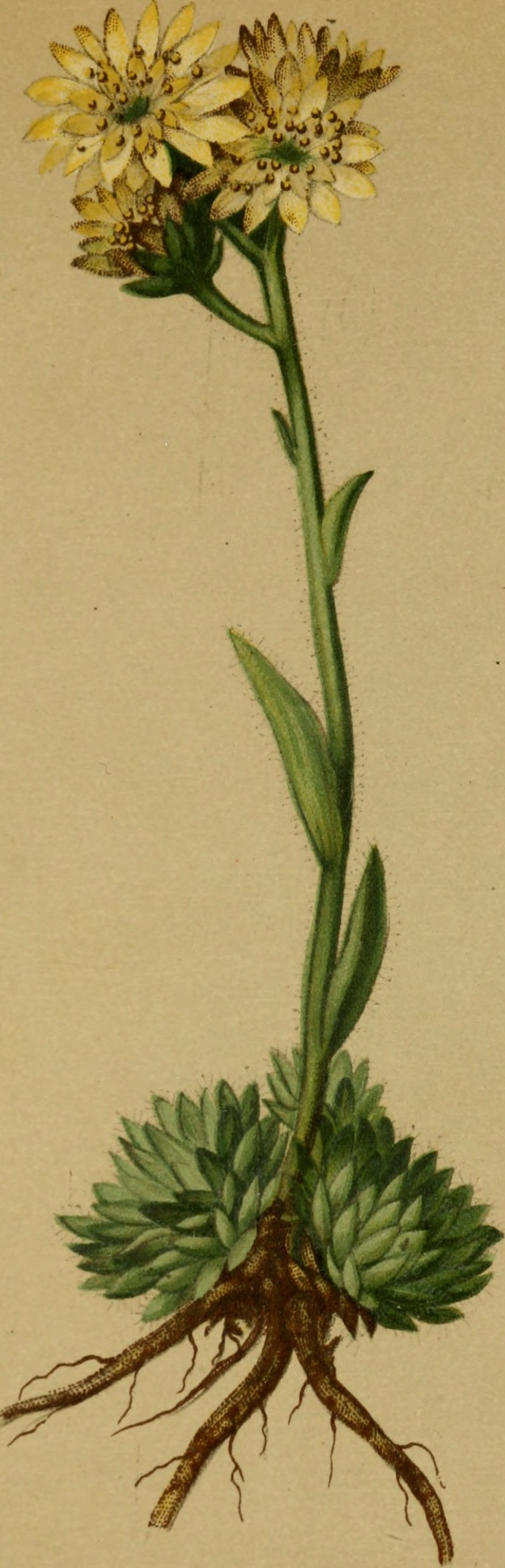 Title: Atlas der Alpenflora Year: 1882 (1880s) Authors: Hartinger, Anton, b. 1806; Dalla Torre, K. W. von (Karl Wilhelm), 1850-1928; Deutscher Alpenverein (Founded 1874) Subjects: Mountain plants Publisher: Wien : Eigenthum und Verlag des Deutschen und Oesterr. Alpenvereins Text Appearing Before Image: 169. Text Appearing After Image: Sempervivum Braunii Funk. — Braun's Hauswurz. Tirol und Kärmen, trockene Stellen, i8oo~25oo M., auf Urgestein, Juli, August.